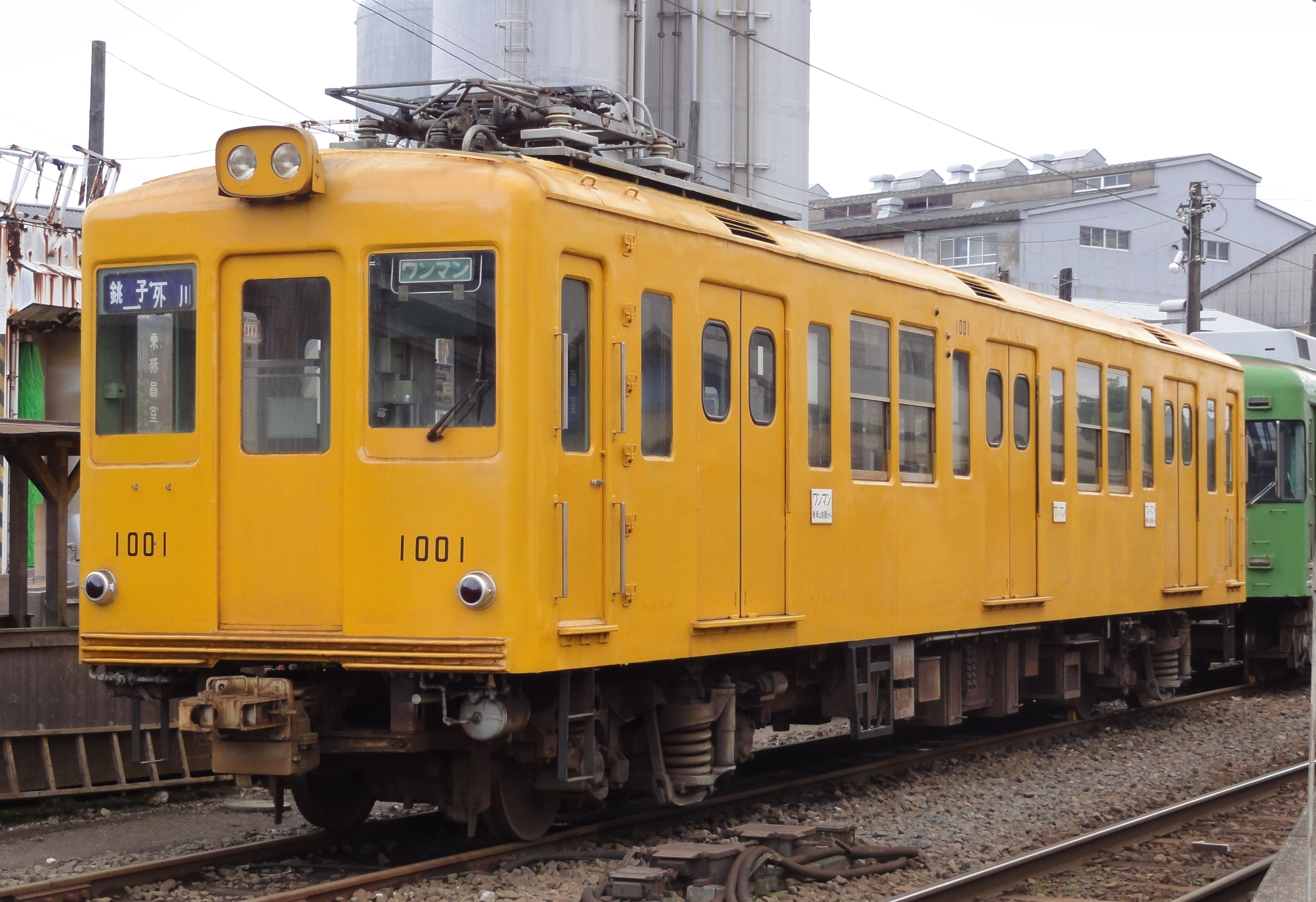 Choshi Electric Railway 1000 series EMU car 1001 in TRTA Ginza Line livery at Nakanocho Depot